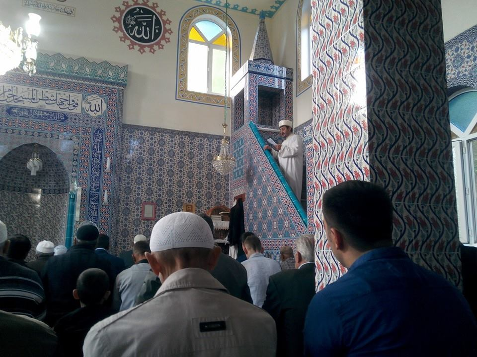 Interior of Fulacık Mosque in Fulacık, Karamürsel, Kocaeli Province.